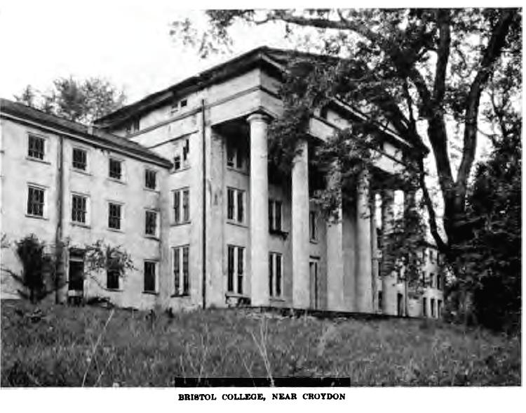 Bristol College, Pennsylvania as it appeared circa 1919